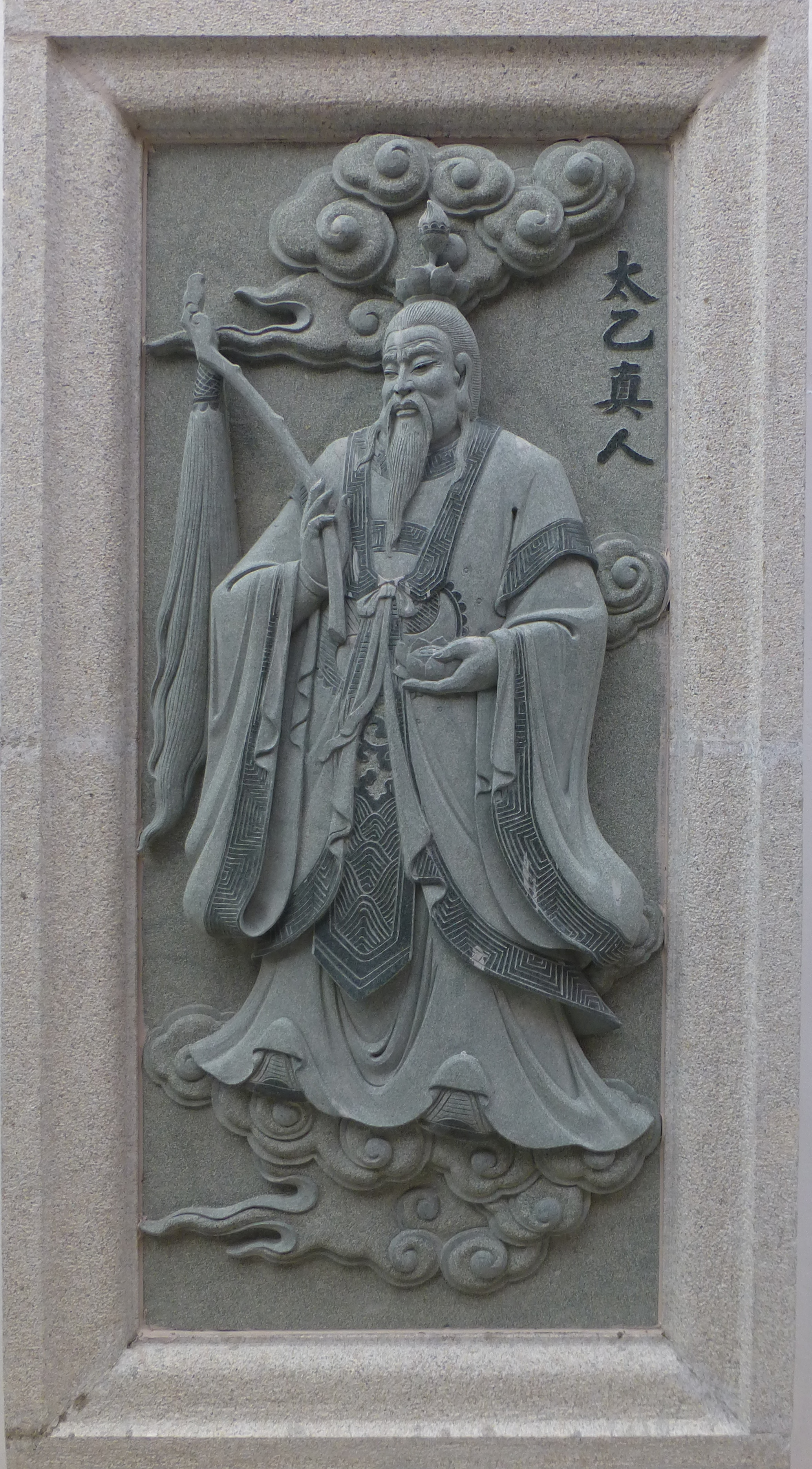 002 Taiyi Zhenren, Investiture of the Gods at Ping Sien Si, Pasir Panjang, Perak, Malaysia Photograph from the Ping Sien Si Temple in Perak, Malaysia taken by Anandajoti.